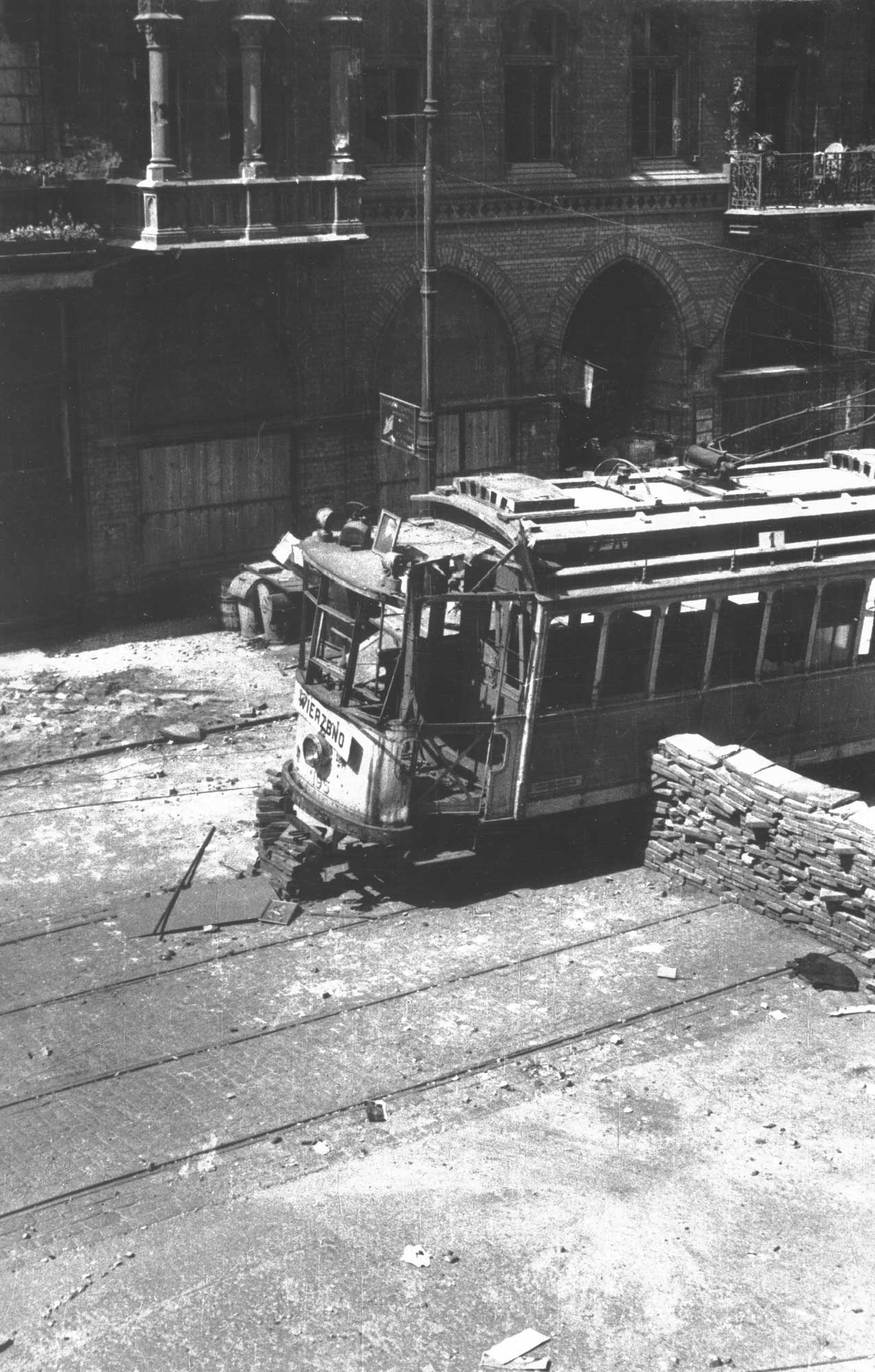 WarsawUprising: Barricade on Marszałkowska street build around a tramway "number one".